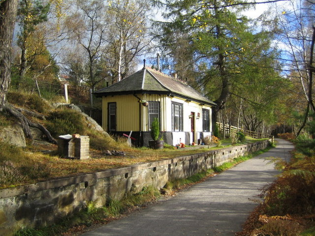 Cambus O'May station on the Deeside Railway (2) Cambus O'May station on the Deeside Railway was opened in 1876. At first it was merely a halt with a simple platform and ballast pit; the small station building was added later. It served the local householders and the day trippers who came to picnic by the river. The station was also used for special deliveries of gunpowder for the nearby quarry where pink granite was excavated. (Source: Notice at the nearby car park.) The station building is now a private dwelling.